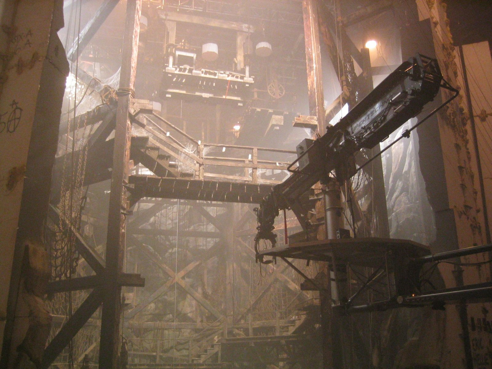 The film set for one of the final scenes of National Treasure (2004)